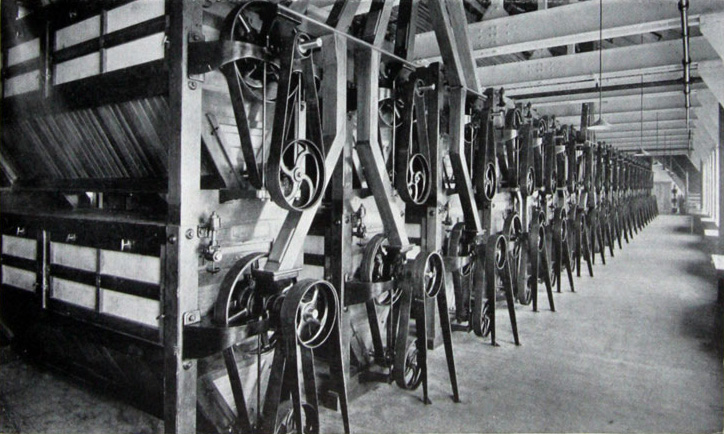 Main centrifugal dressing machine floor, Spiller's Millennium Mills, Royal Victoria Dock, London, 1934. Originally published in the "Spillers: 1934 Review" chapter of British Commerce and Industry 1934.